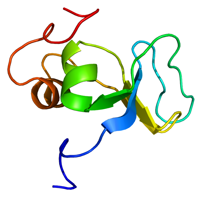 Structure of the LTBP1 protein. Based on PyMOL rendering of PDB 1ksq.